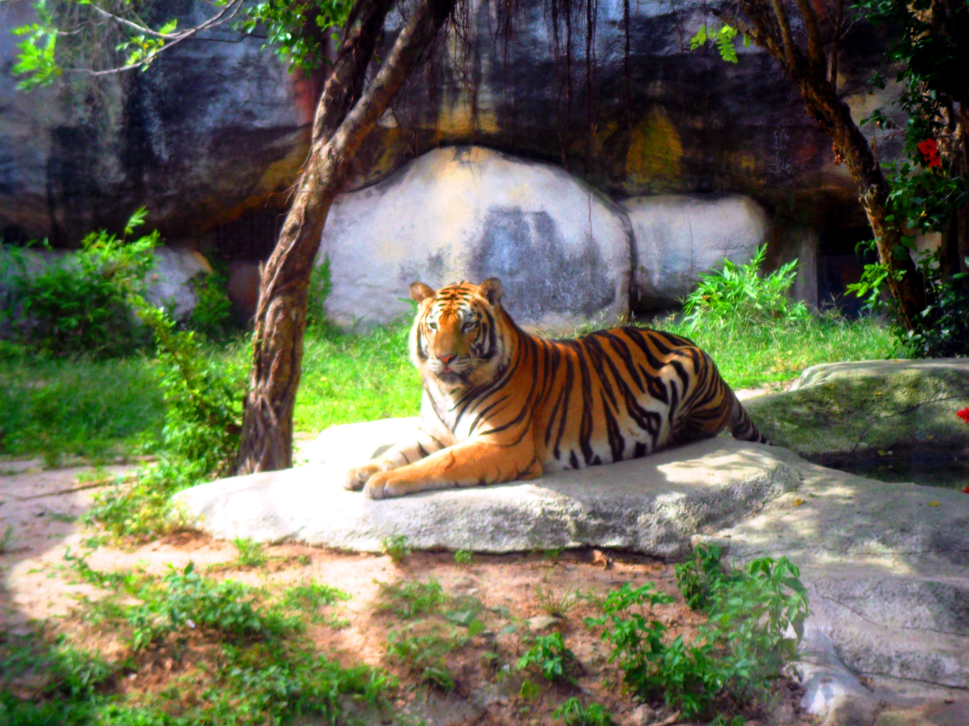 Tiger at Dai Nam tourist area, Binh Duong Province, Vietnam.